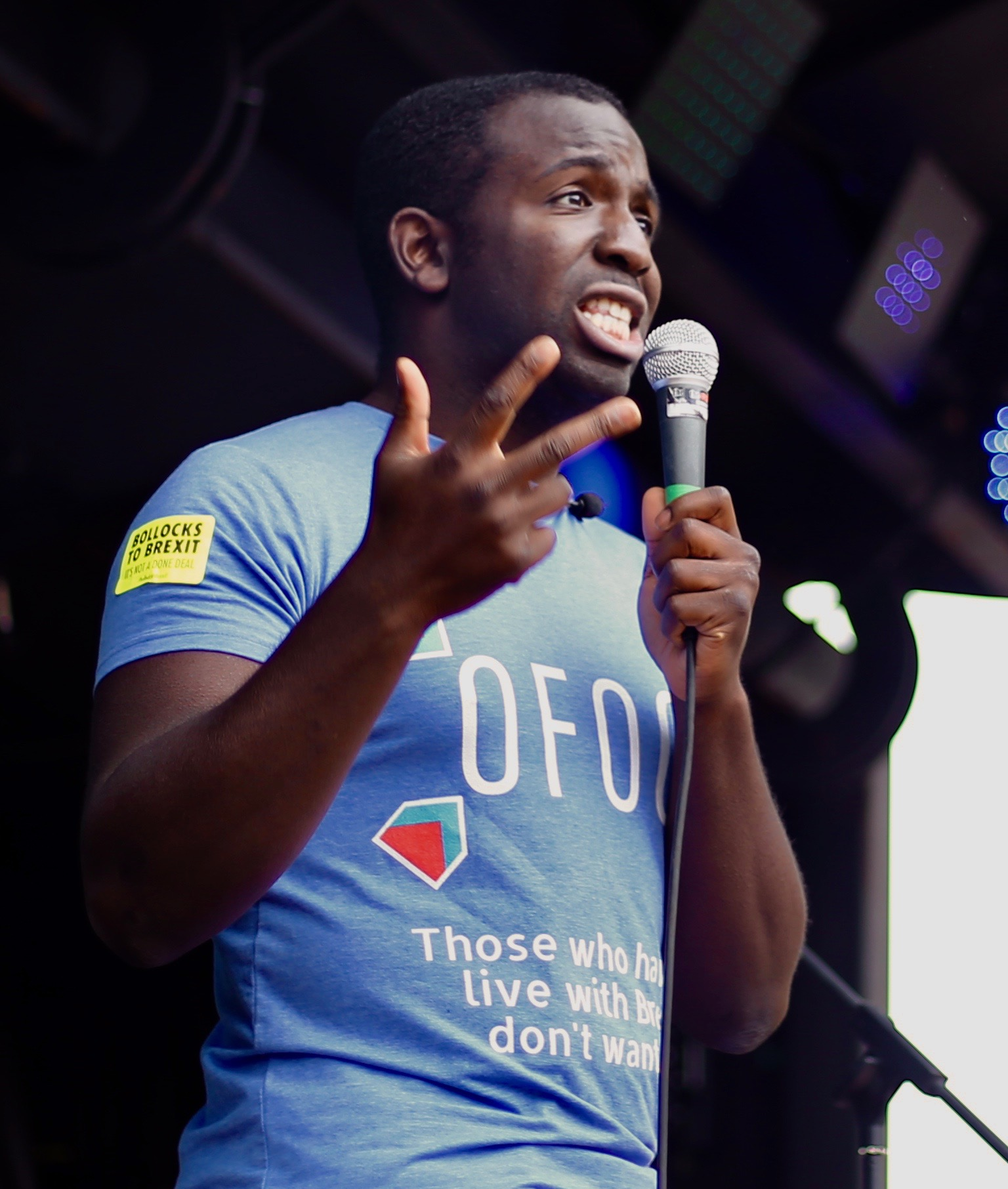 Birmingham Bin Brexit march for a People's Vote on leaving the European Union to coincide with the Conservative Party conference being held in the city. Speakers included AC Grayling, Lord Andrew Adonis, Femi Oluwole, #Remainer Now and Tories Against Brexit. Organised by EU in Brum.